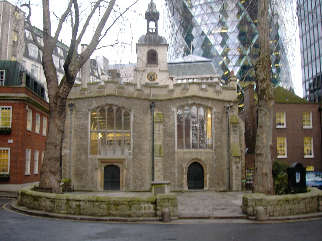 St. Helen Bishopsgate Church, London St. Helen Bishopsgate, London